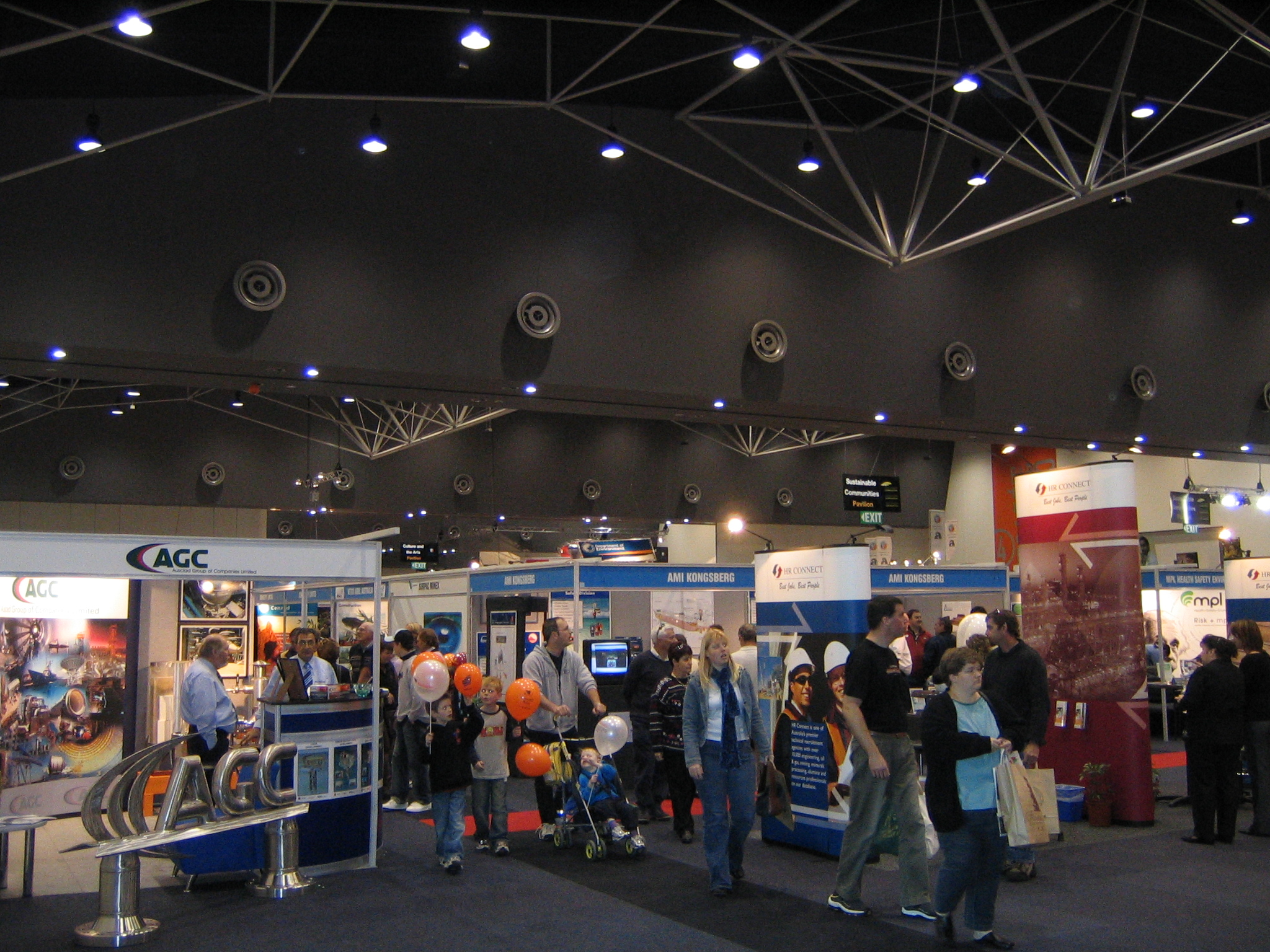 Perth Convention Exhibition Centre (interior), Western Australia.